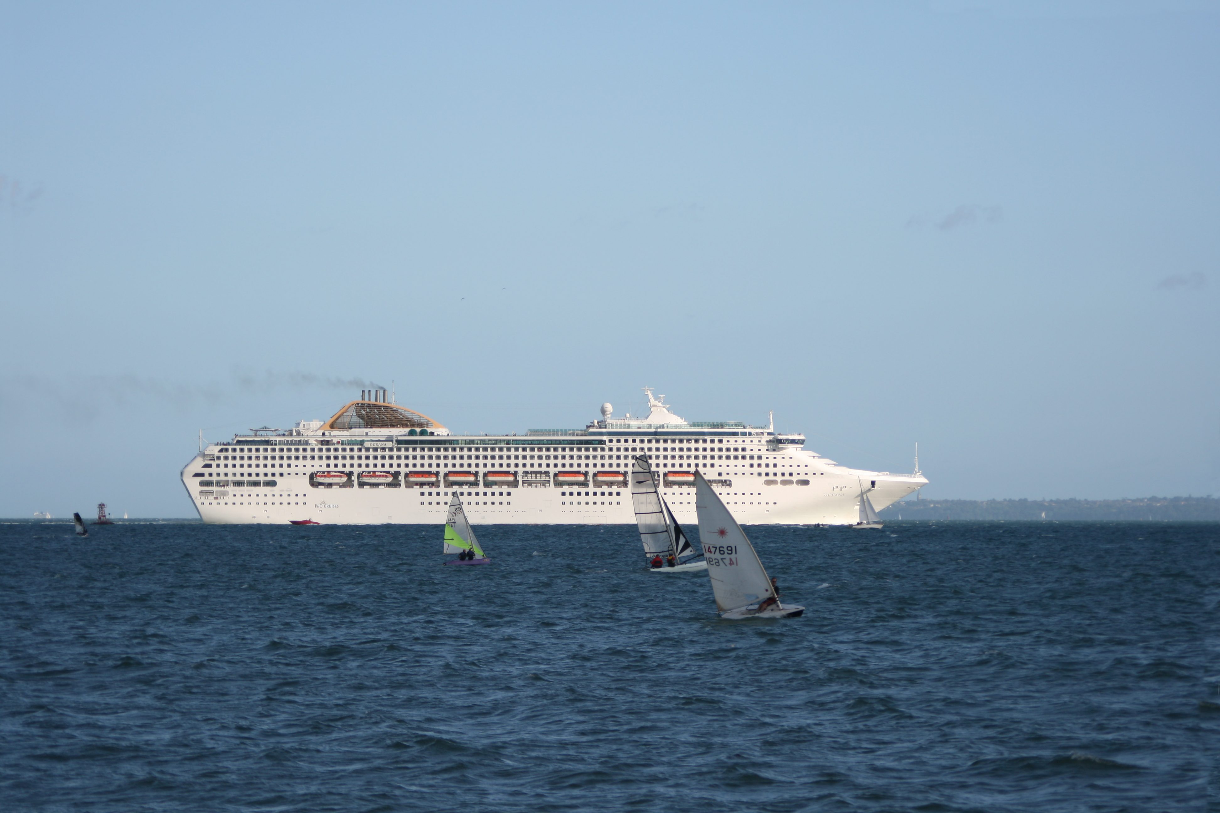 77,499 gross registered tons Oceana passing Calshot Spit light buoy in The Solent, outward bound from Southampton. Image uploaded by me George.Hutchinson from a photograph taken by and supplied by Brian Burnell. The photograph should be attributed to Brian Burnell. Wikipedia editors are reminded that the copyright remains with the photographer, and that the terms of the Creative Commons Attribution-ShareAlike 3.0 Unported Licence that allow editors to reuse this image apply to Wikipedia editors also, as they do to other reusers of this image. Breaches of the licence terms are not only unlawful, but are also antisocial, in that breaches discourage photographers from making their images freely available to everyone without payment. Non-Wikipedia users are requested to advise Brian Burnell of its use other than on Wikipedia.